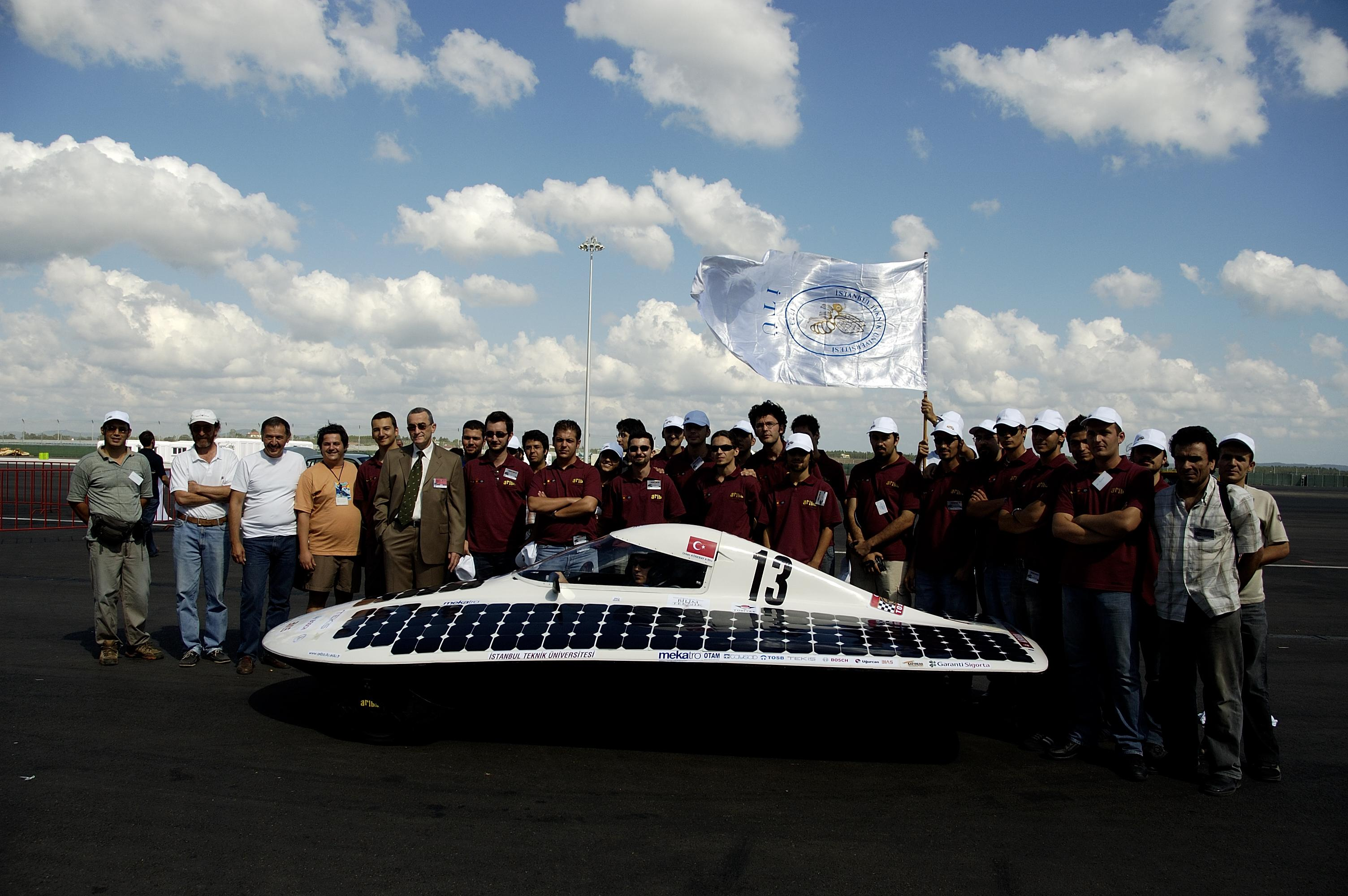 2005 formula-g